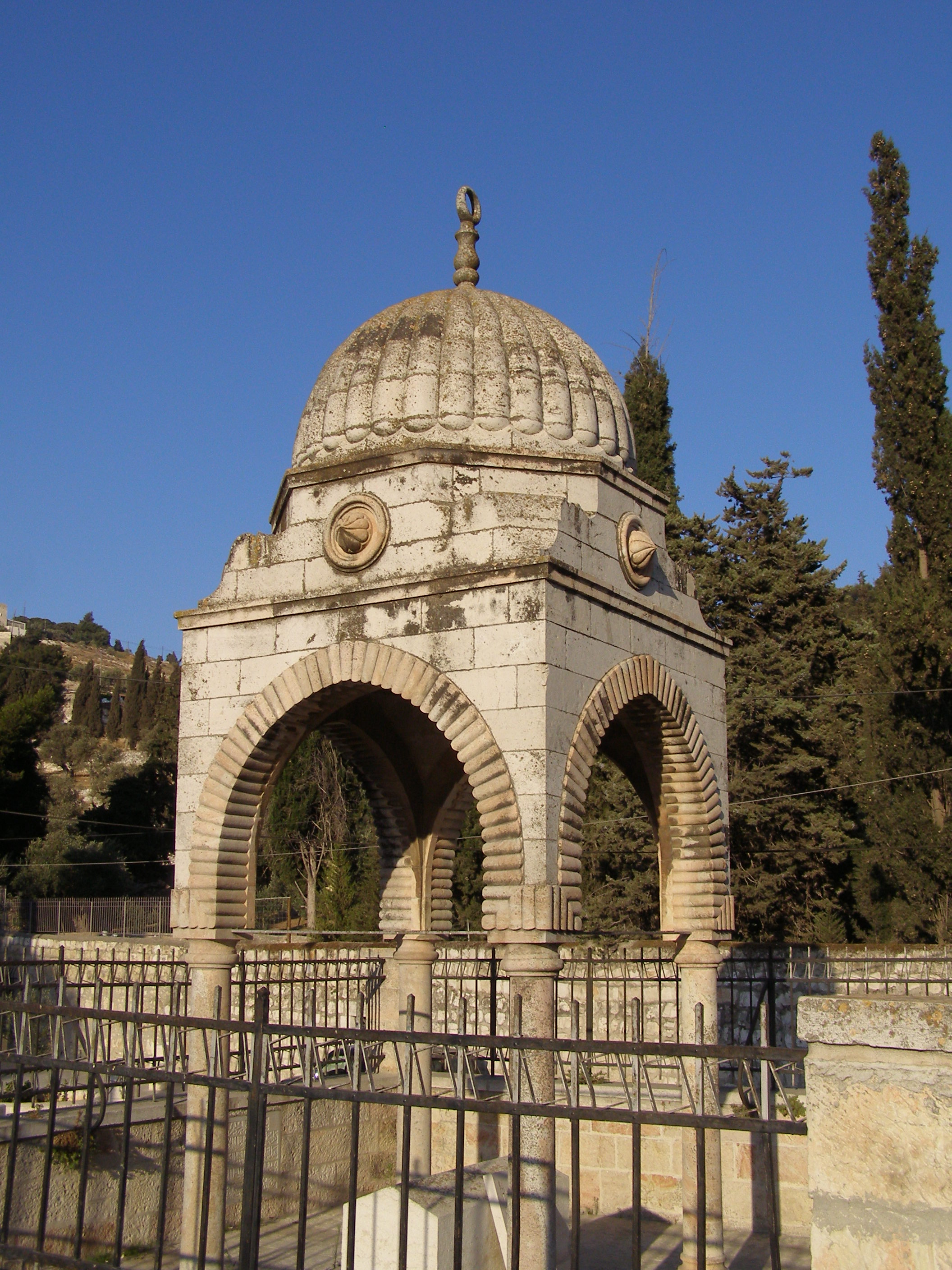 Mujjir a Dinn tomb jerusalem mount of olives